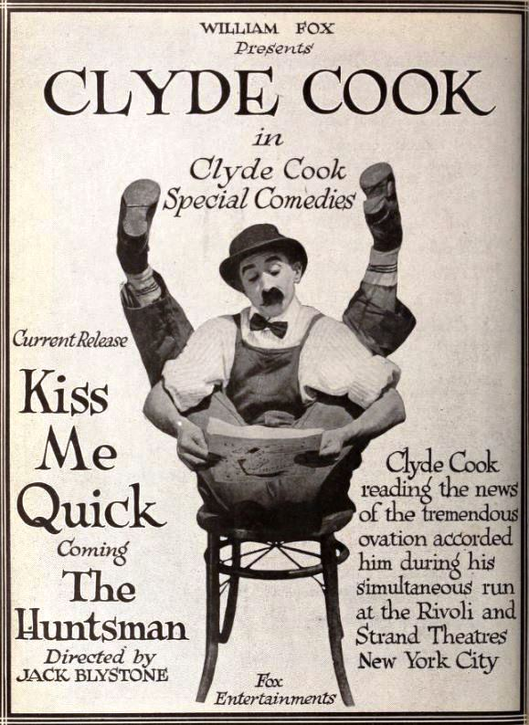 Advertisement for the American comedy short film Kiss Me Quick (1920) with Clyde Cook, on page 8 of the November 20, 1920 Exhibitors Herald.